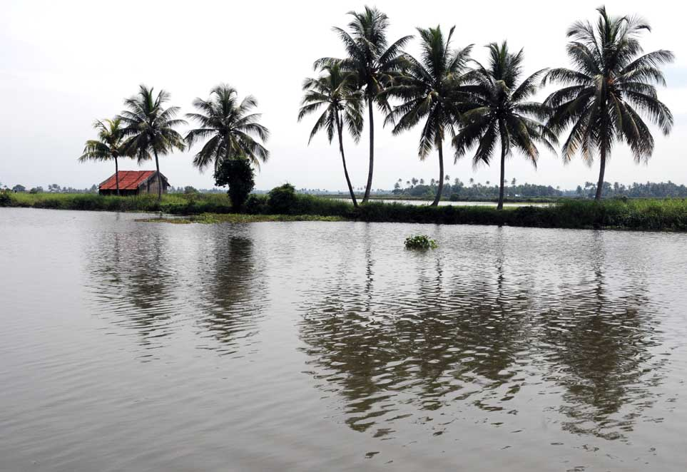 A shop in the backwaters off Kochi selling coconut toddy, a mild fermented alcoholic drink made by tapping of coconut flowers. What a setting for a drink! More on coconut toddy